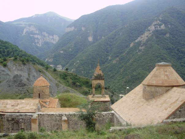 Dadivank Monastery in Shahumian region, Nagorno-Karabakh Republic.